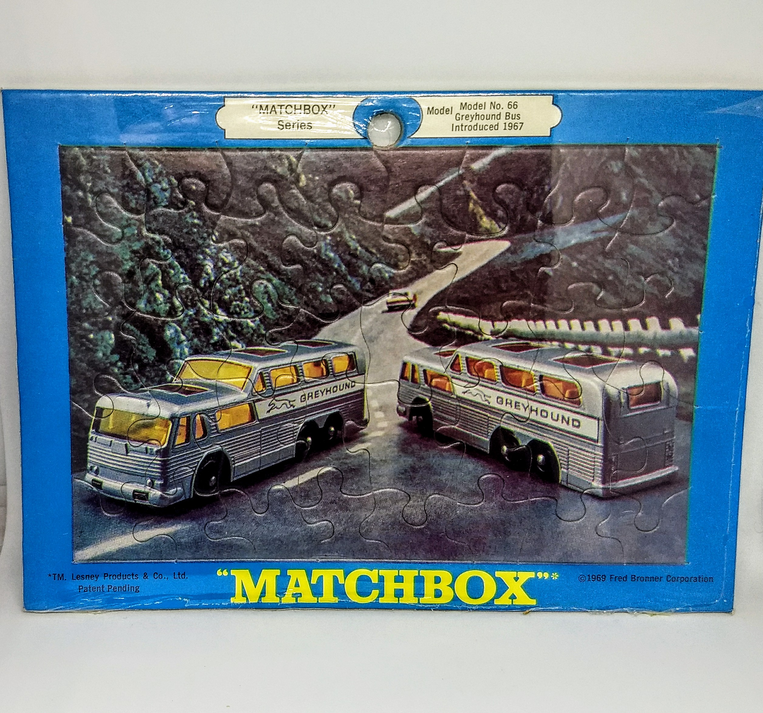 A jigsaw puzzle by Matchbox